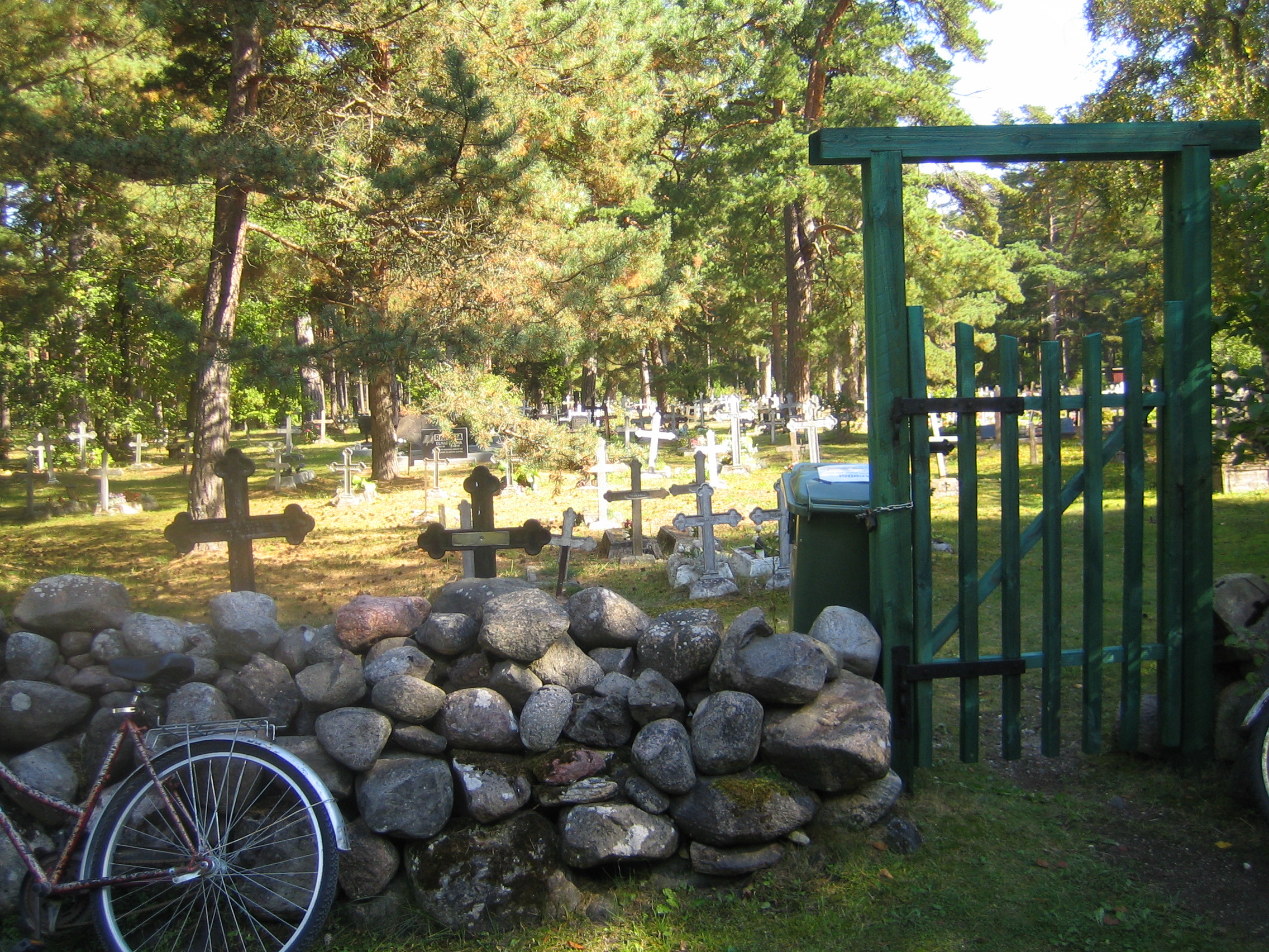 Kihnu cemetery